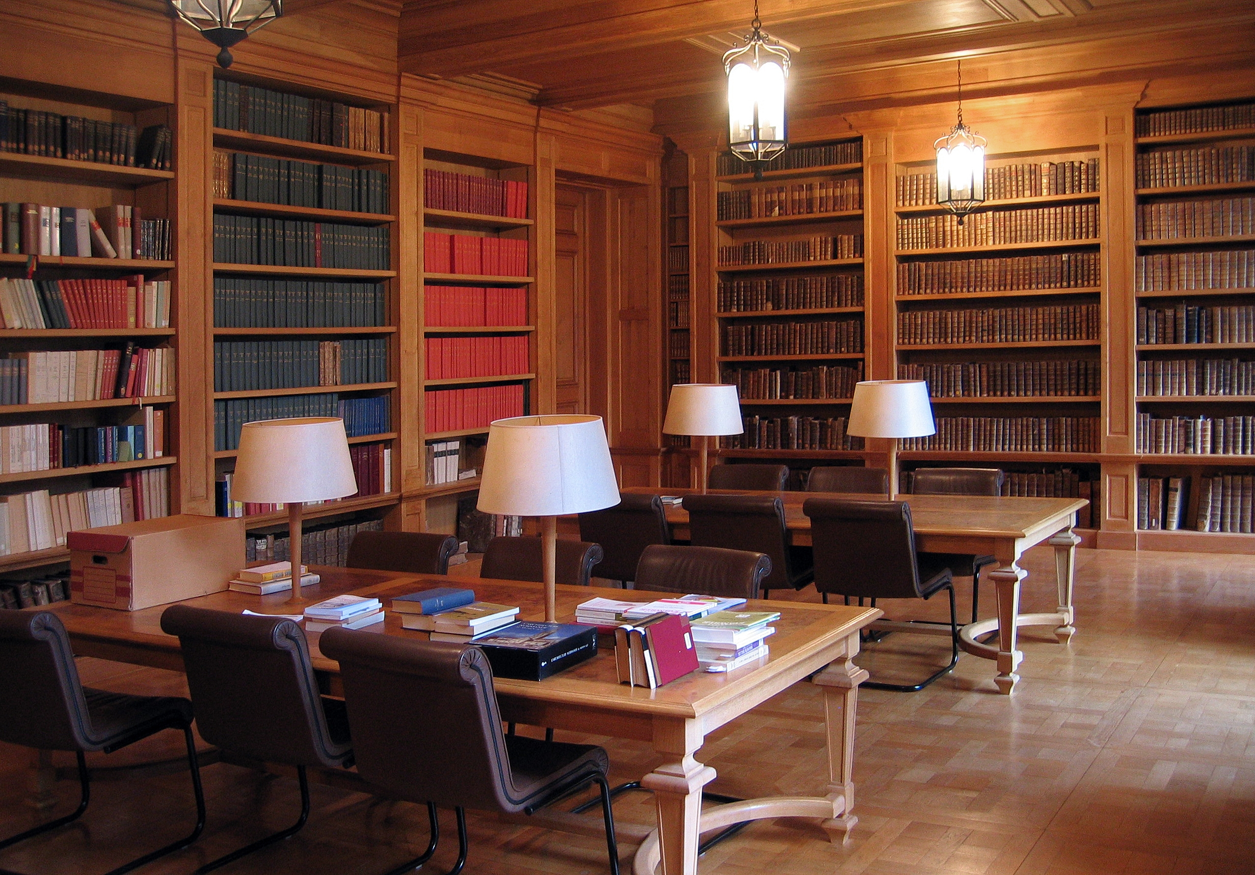 The library today at the Bec-Hellouin abbey.